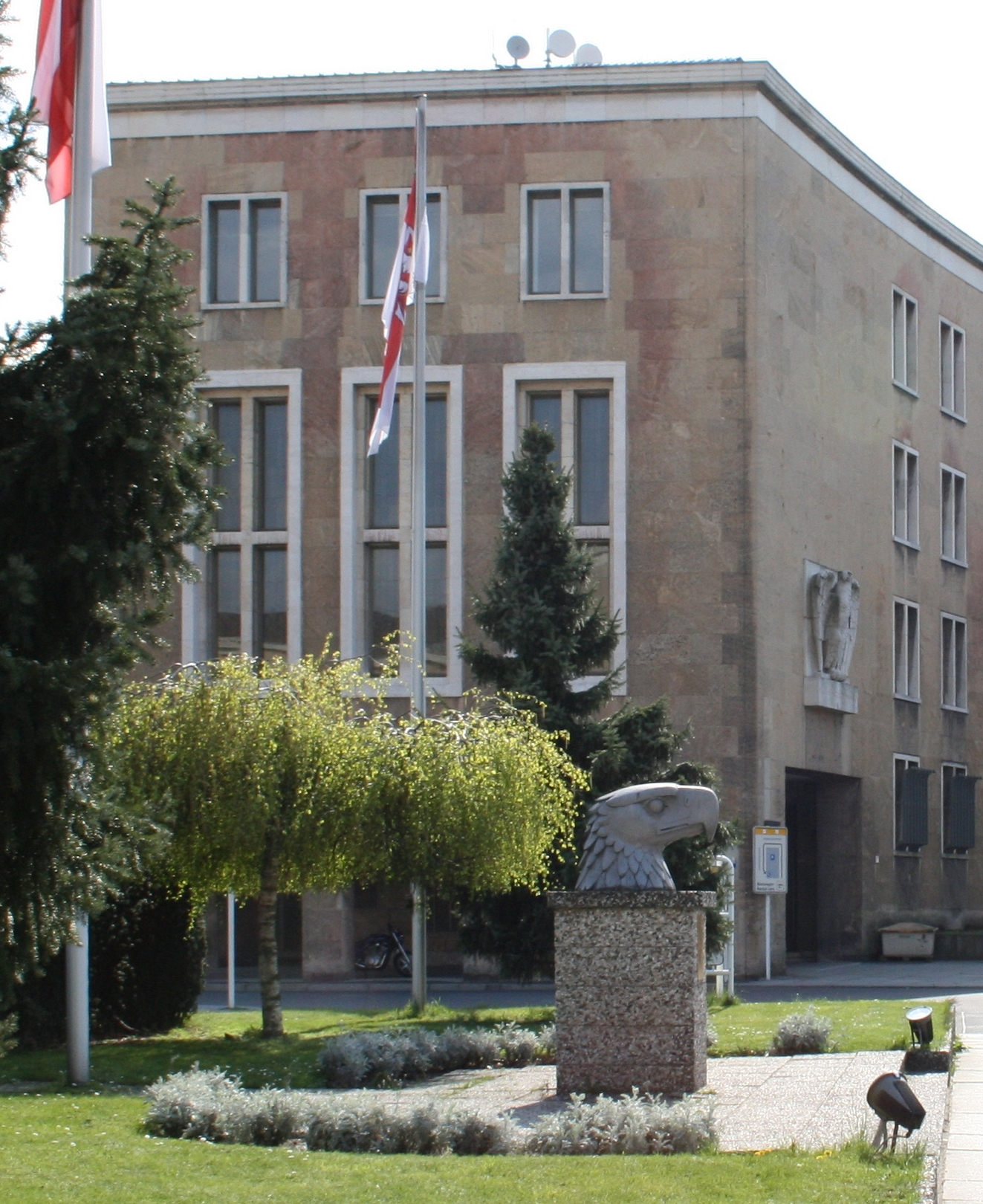 eagles head/"eagle square" on "Platz der Luftbrücke" (berlin airlift place) in front of Tempelhof International Airport Berlin, Germany